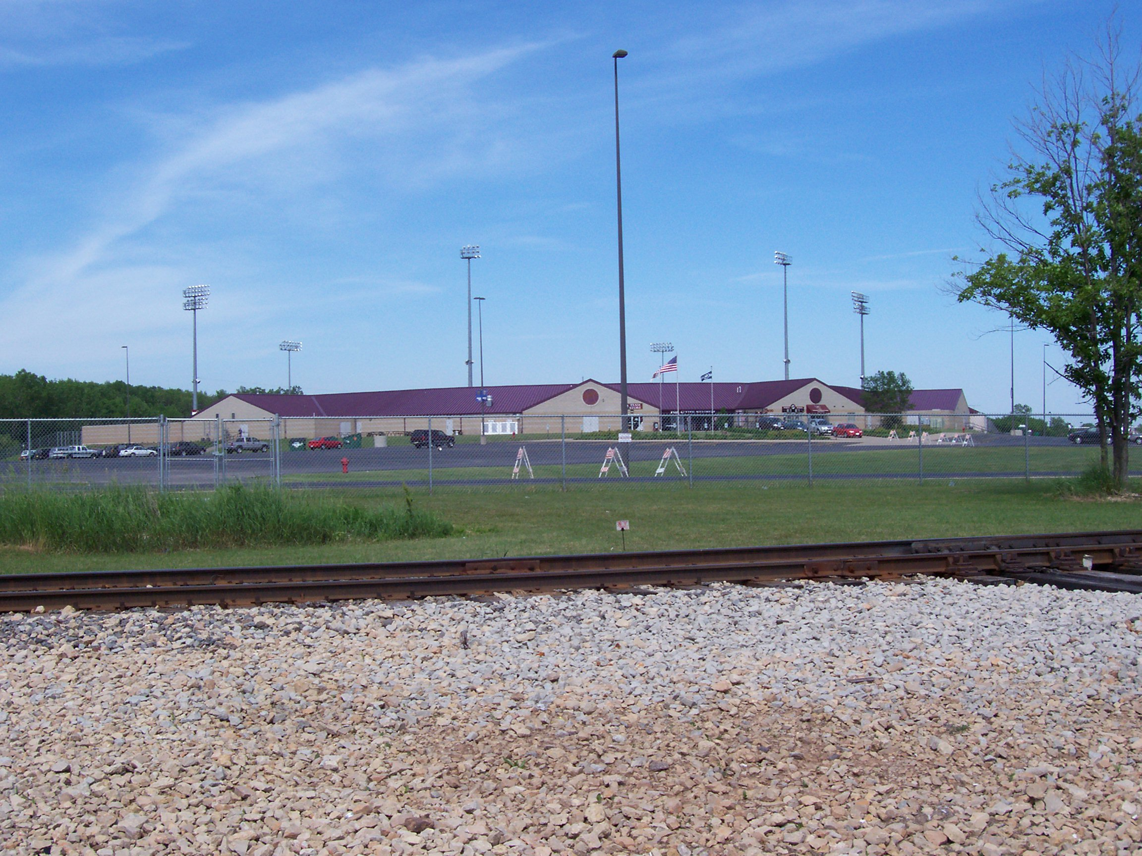 Fox Cities Stadium in greater Appleton, Wisconsin, taken by User:Royalbroil on June 5, 2006. 04:12, 6 June 2006 . . Royalbroil . . 2,304×1,728 (820 KB)